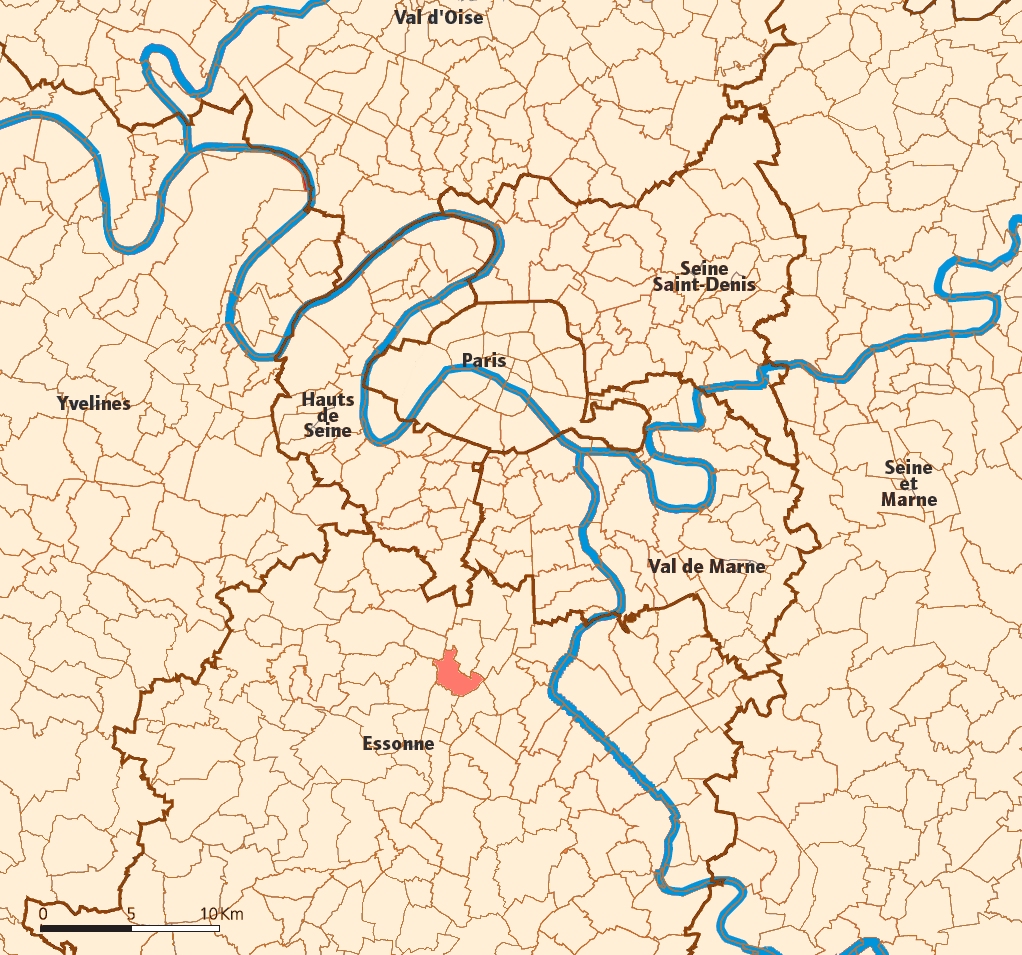 Created map myself.